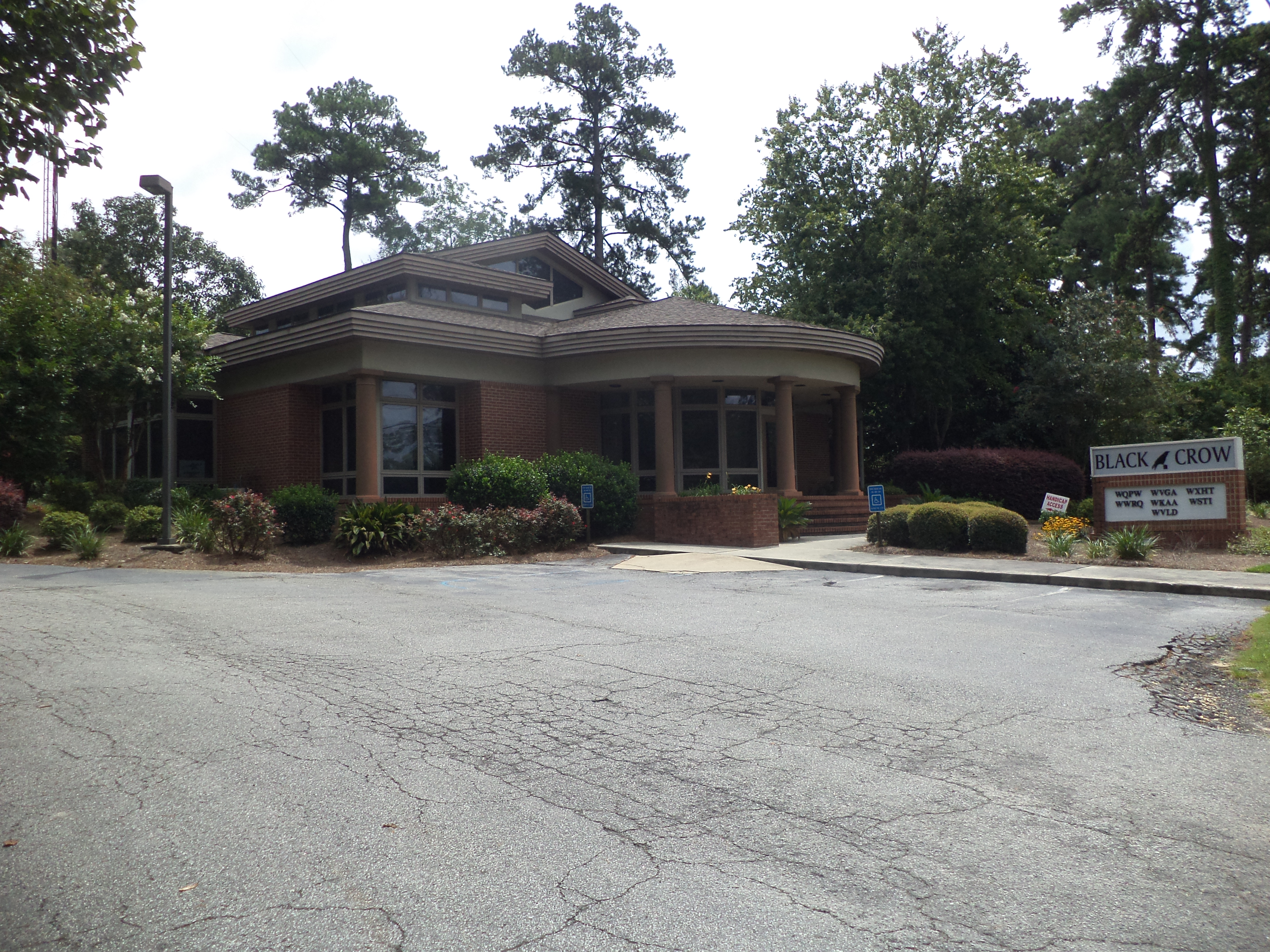 Black Crow Media, Valdosta, Lowndes County, Georgia